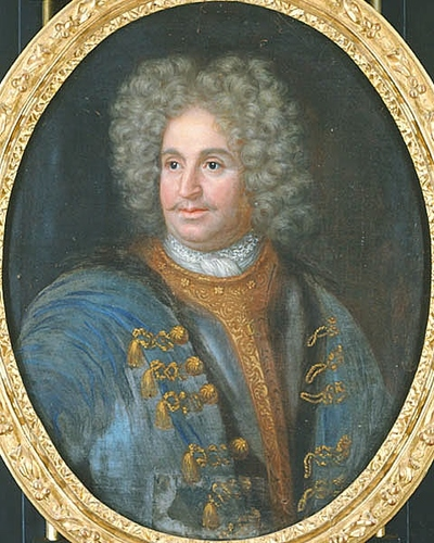 Ludvig Fabritius, Lieutenant Colonel and envoy of the Swedish crown to Safavid Iran. Painted by Martin Mijtens.